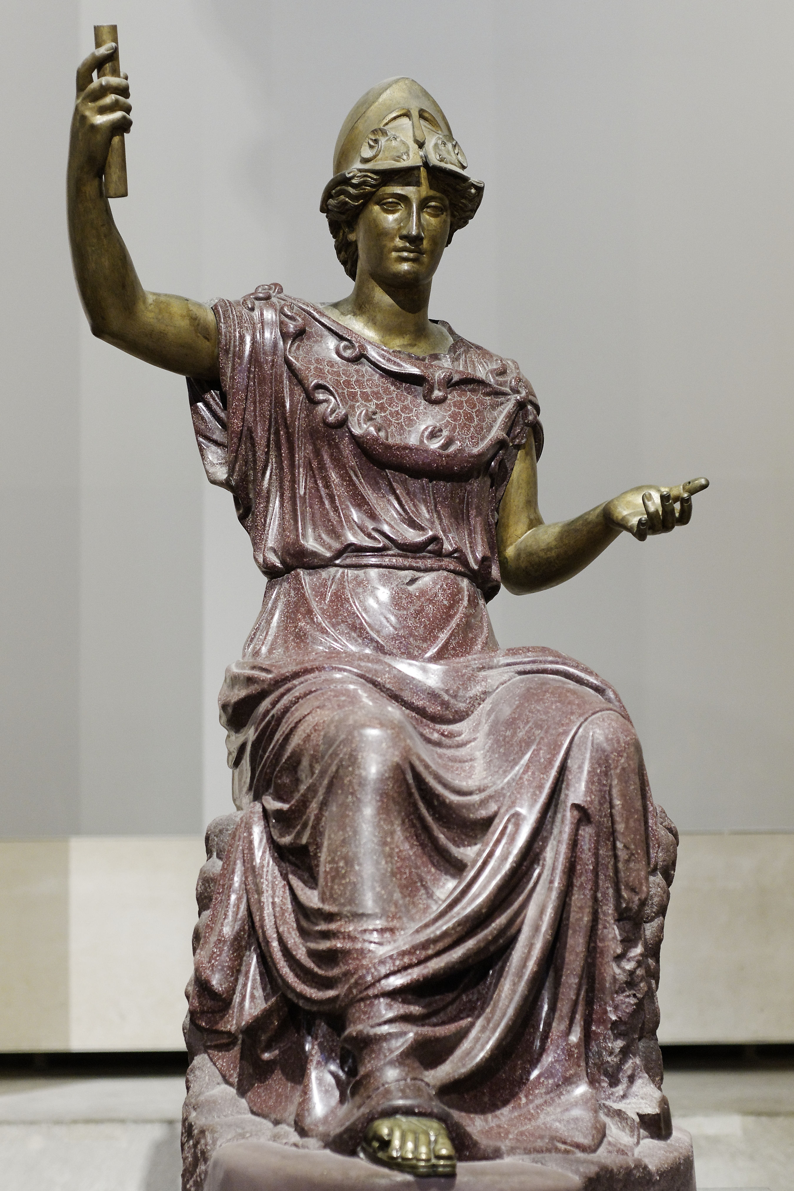 Seated Minerva restored as Dea Roma, red porphyry (ancient body, 2nd century AD, completed by Francuccio Francucci) and gilt bronze (modern head and arms, 17th and 18th centuries). From the gardens of San Martino de’ Monti, Rome.